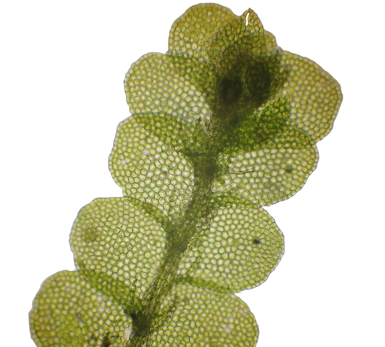 collected on the trunk of Phoenix dactylifera on the campus of Florida International University, Miami, Florida, USA.